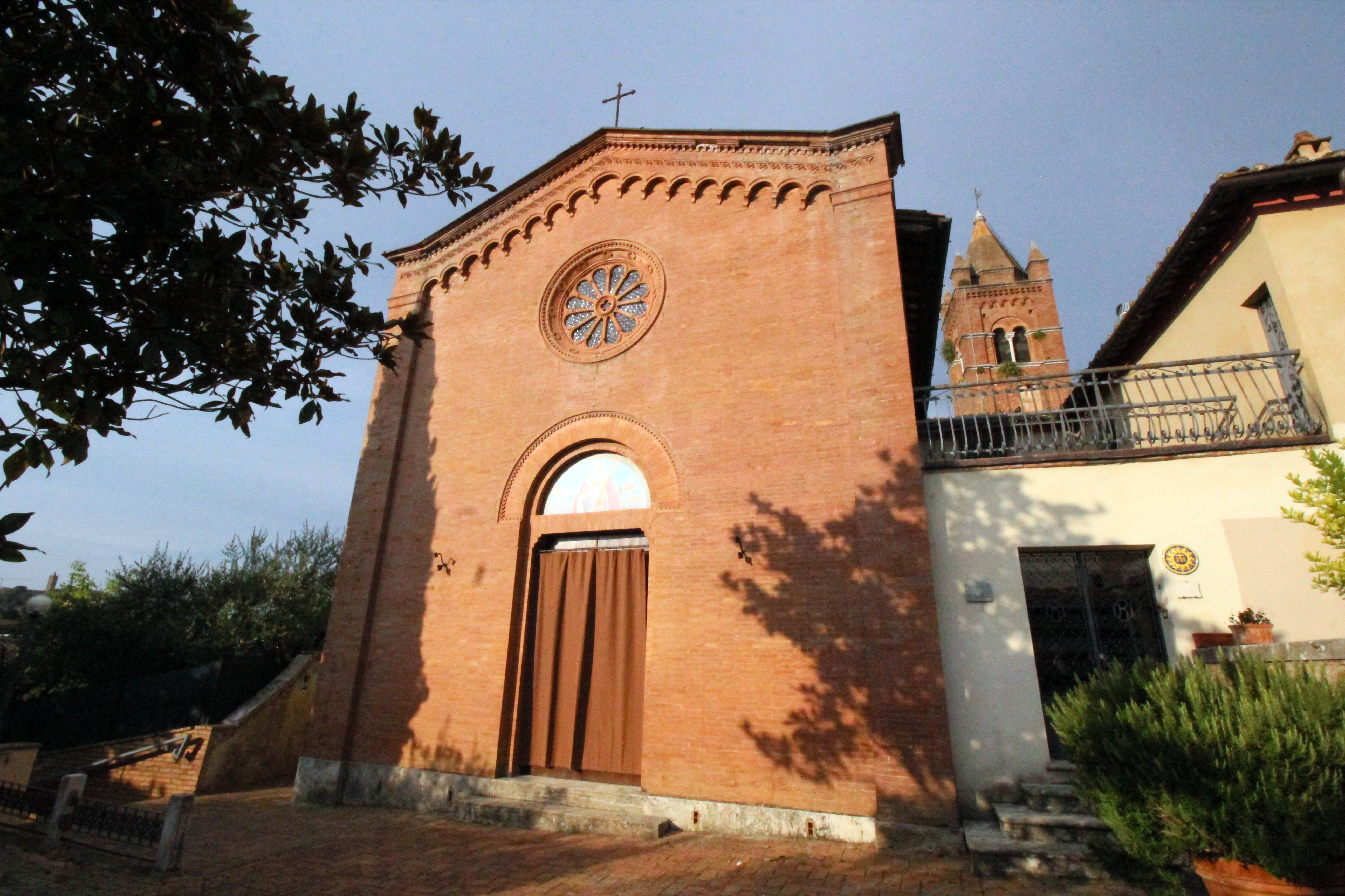 Church San Mamiliano in Valli, Valli, hamlet of Siena, Tuscany, Italy